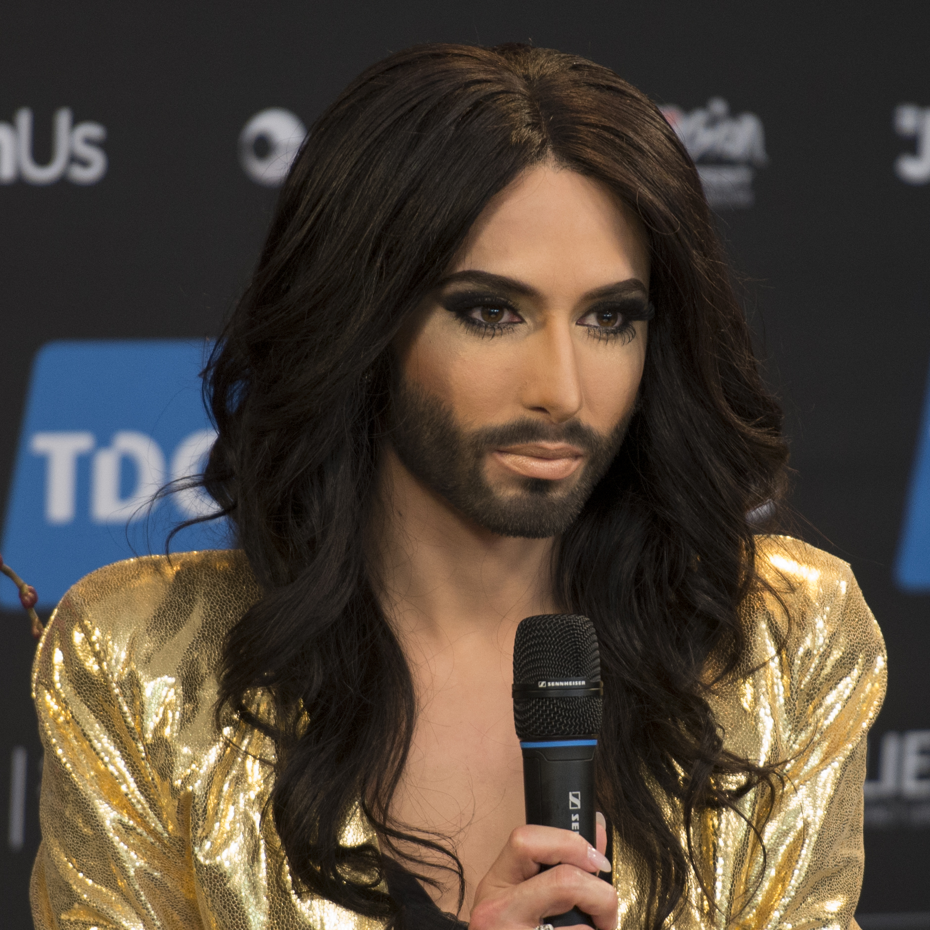 Conchita Wurst at a Meet & Greet during the Eurovision Song Contest 2014 Copenhagen. (Help translate this text)